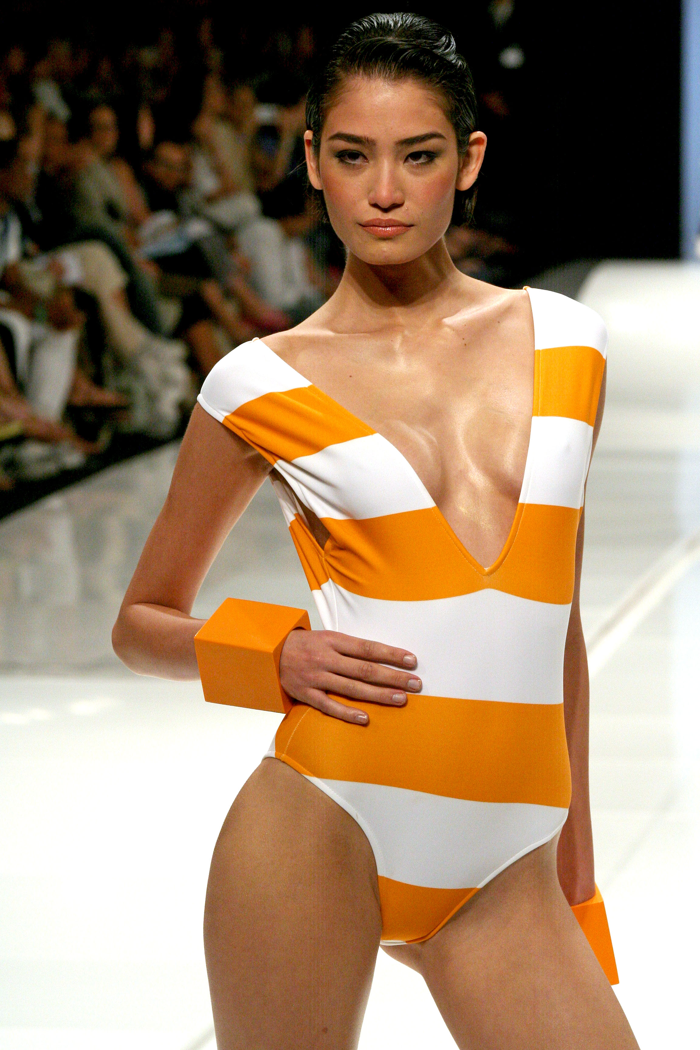 Brazillian model Juliana Imai at the Fashion Rio Verão 2007.